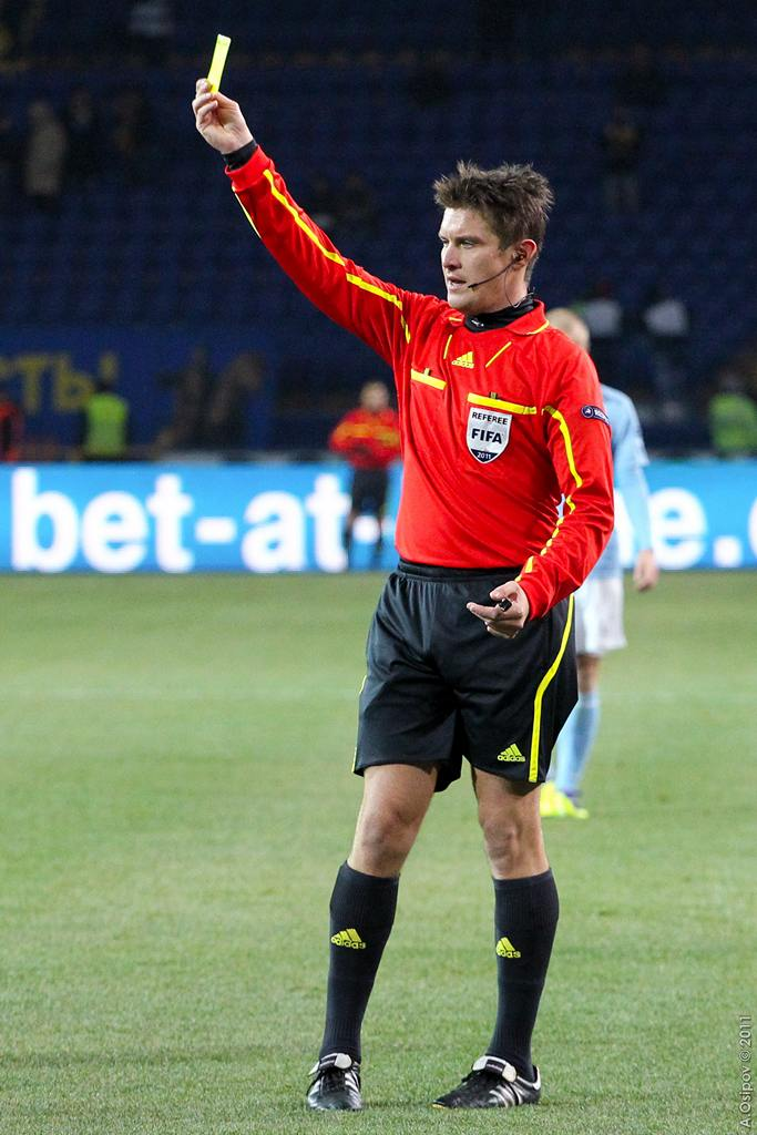 FC Metalist Kharkiv 3-1 Malmö FF Goals from Brazilians Taison and Fininho helped Metalist see off their Swedish guests to move to within touching distance of qualification from Group G.